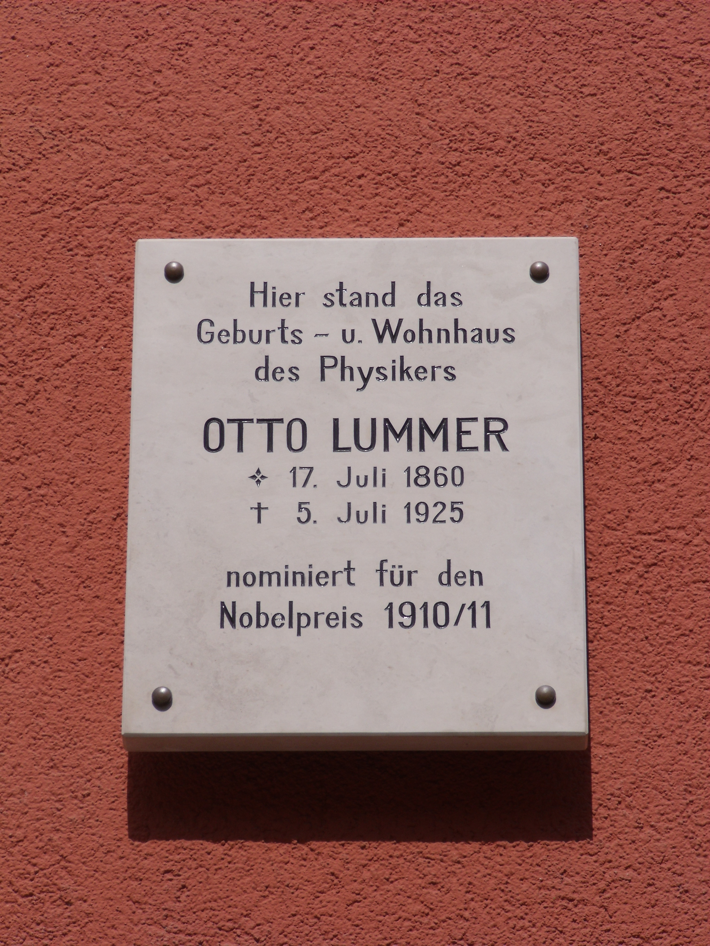 Plaque for physicist Otto Lummer (1860–1925), Schlossstraße 6, Gera, Germany